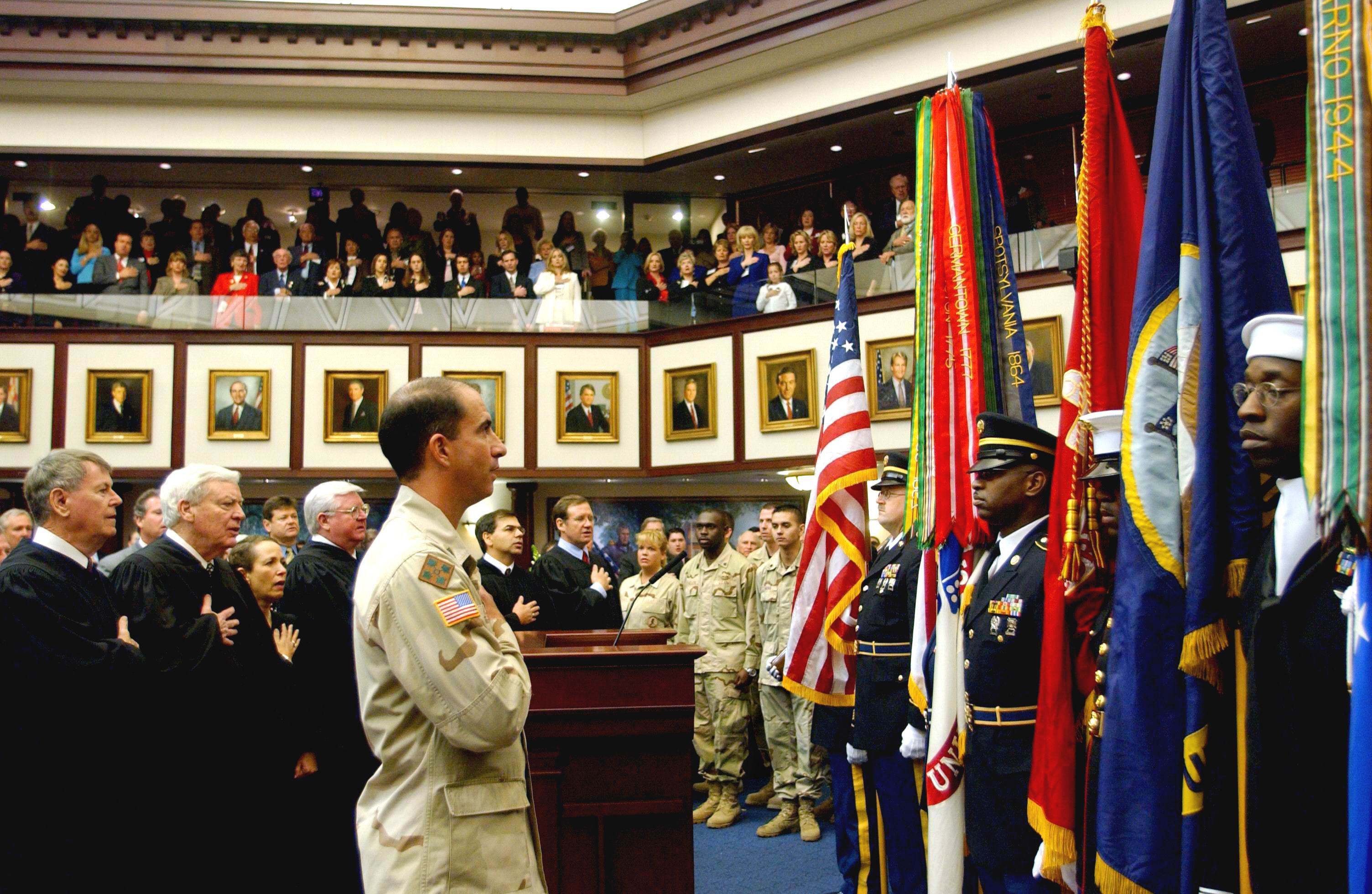 House Speaker Johnnie Byrd, R-Plant City, left, and Senate President Jim King, R-Jacksonville, pose for a leadership portrait during the opening joint session of the 2004 Legislature.